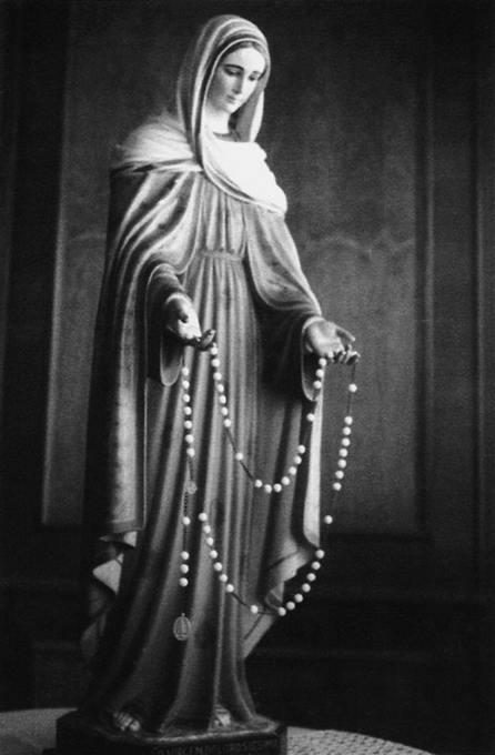 Original statue of Our Lady of Tears – Campinas, Brazil.